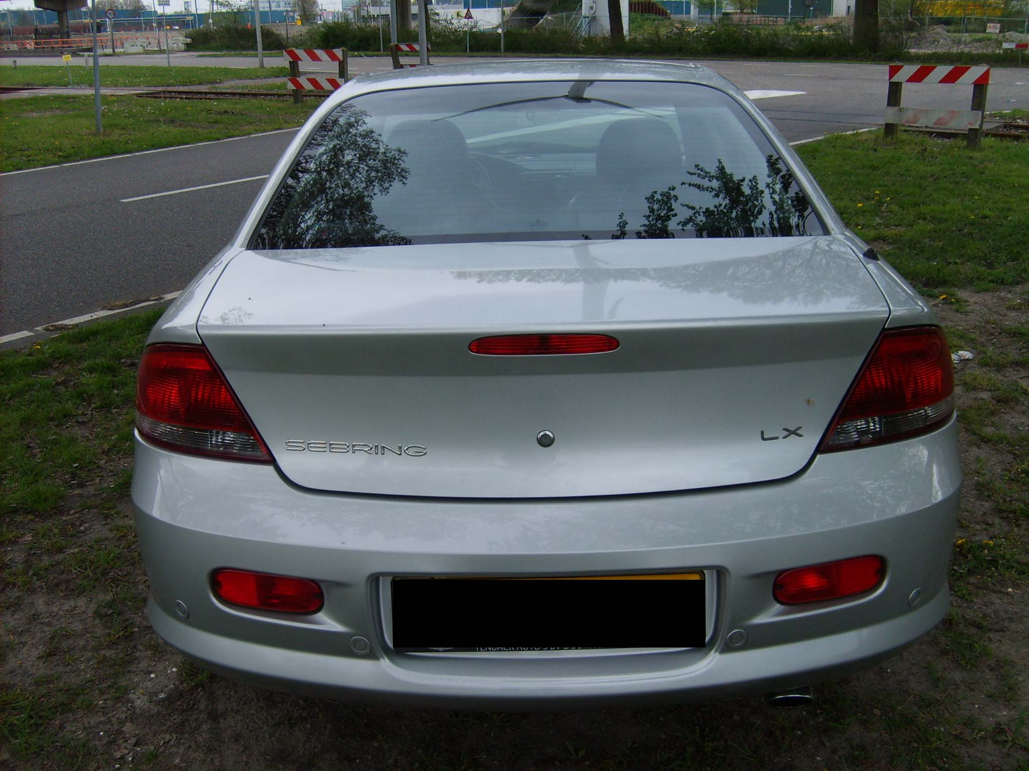 Chrysler Sebring